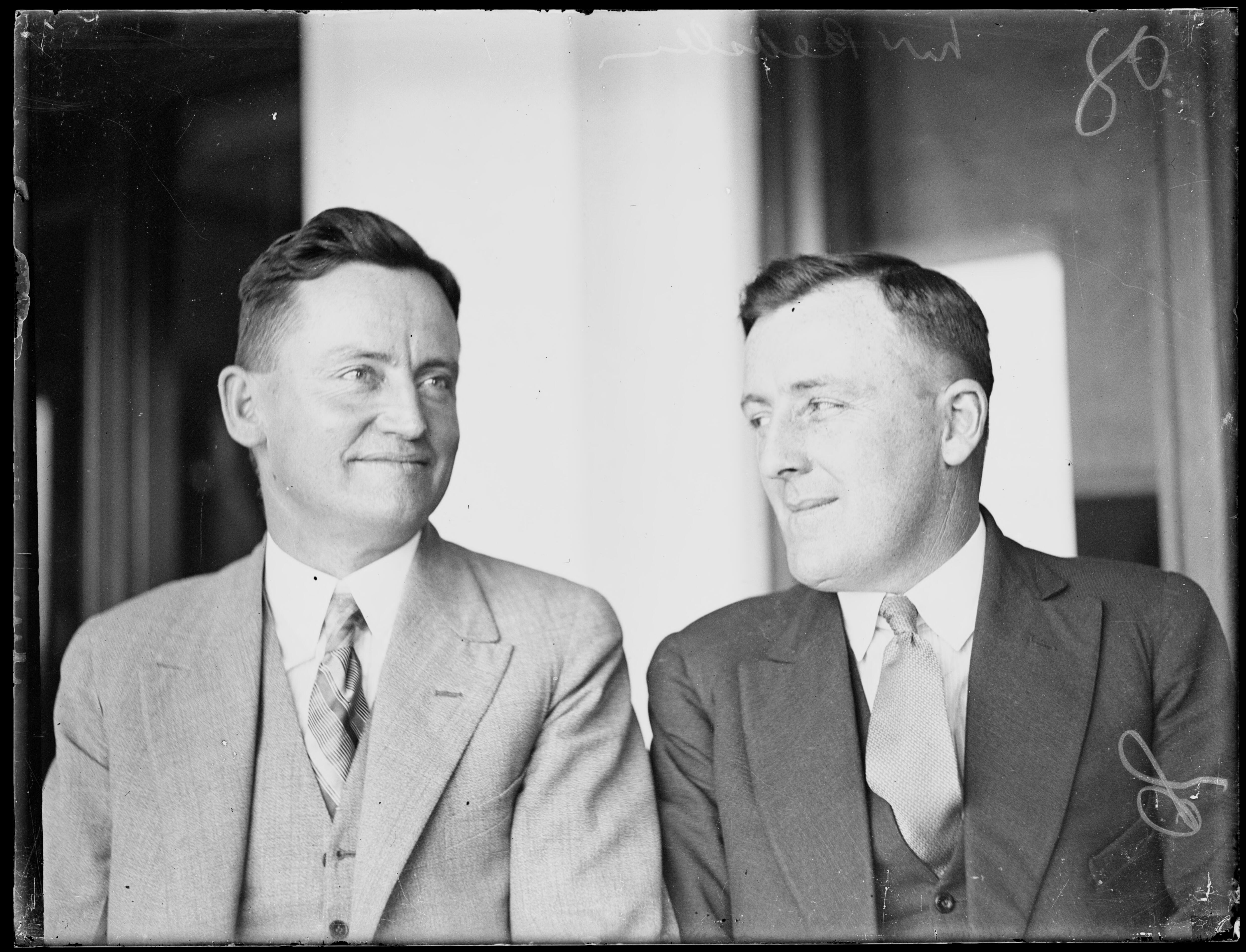 Labor MPs Frank Forde and Jack Beasley, on the day they were sworn in as assistant ministers in the Scullin Ministry.